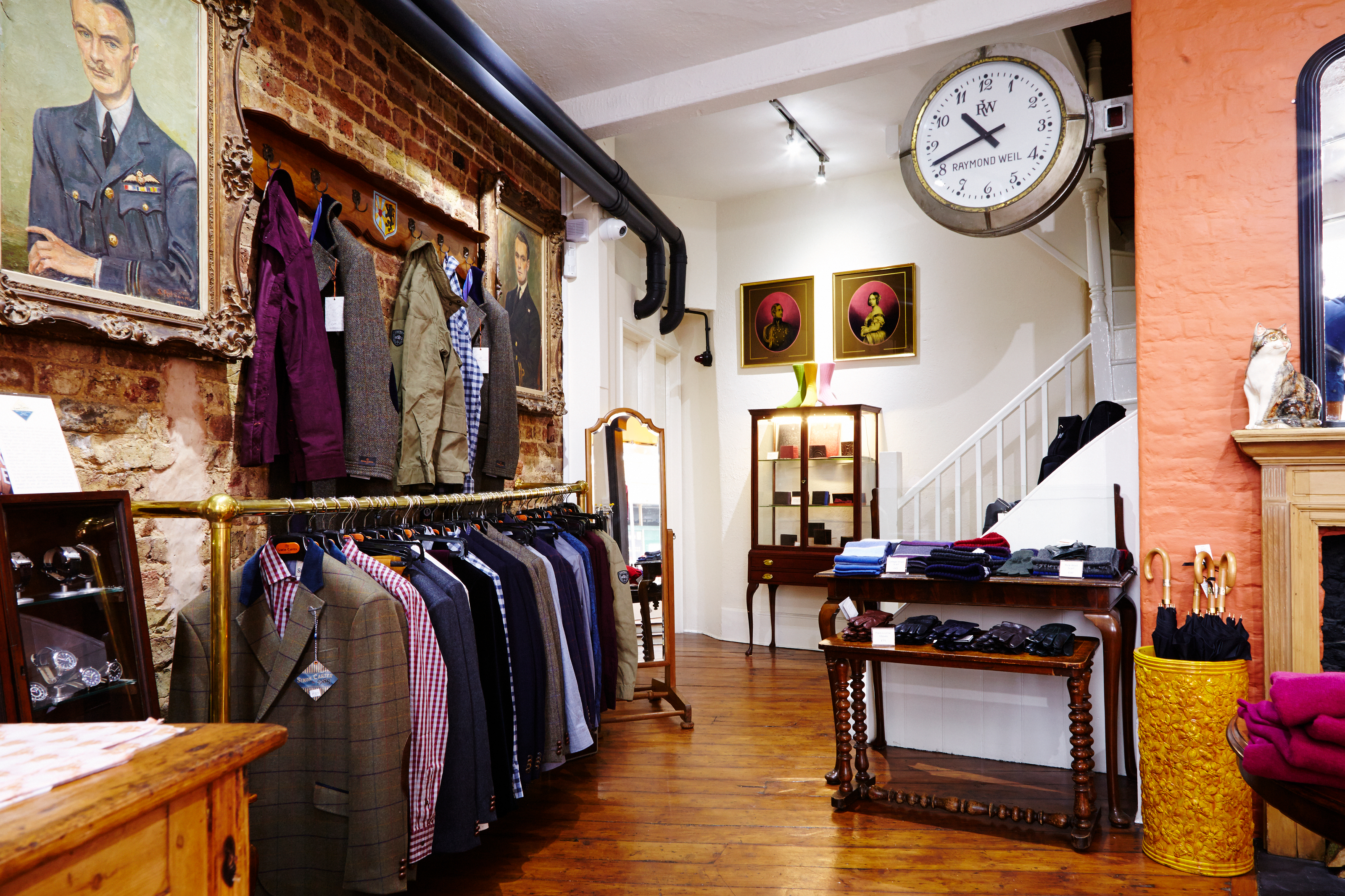 The Simon Carter shop in Crystal Palace, south London